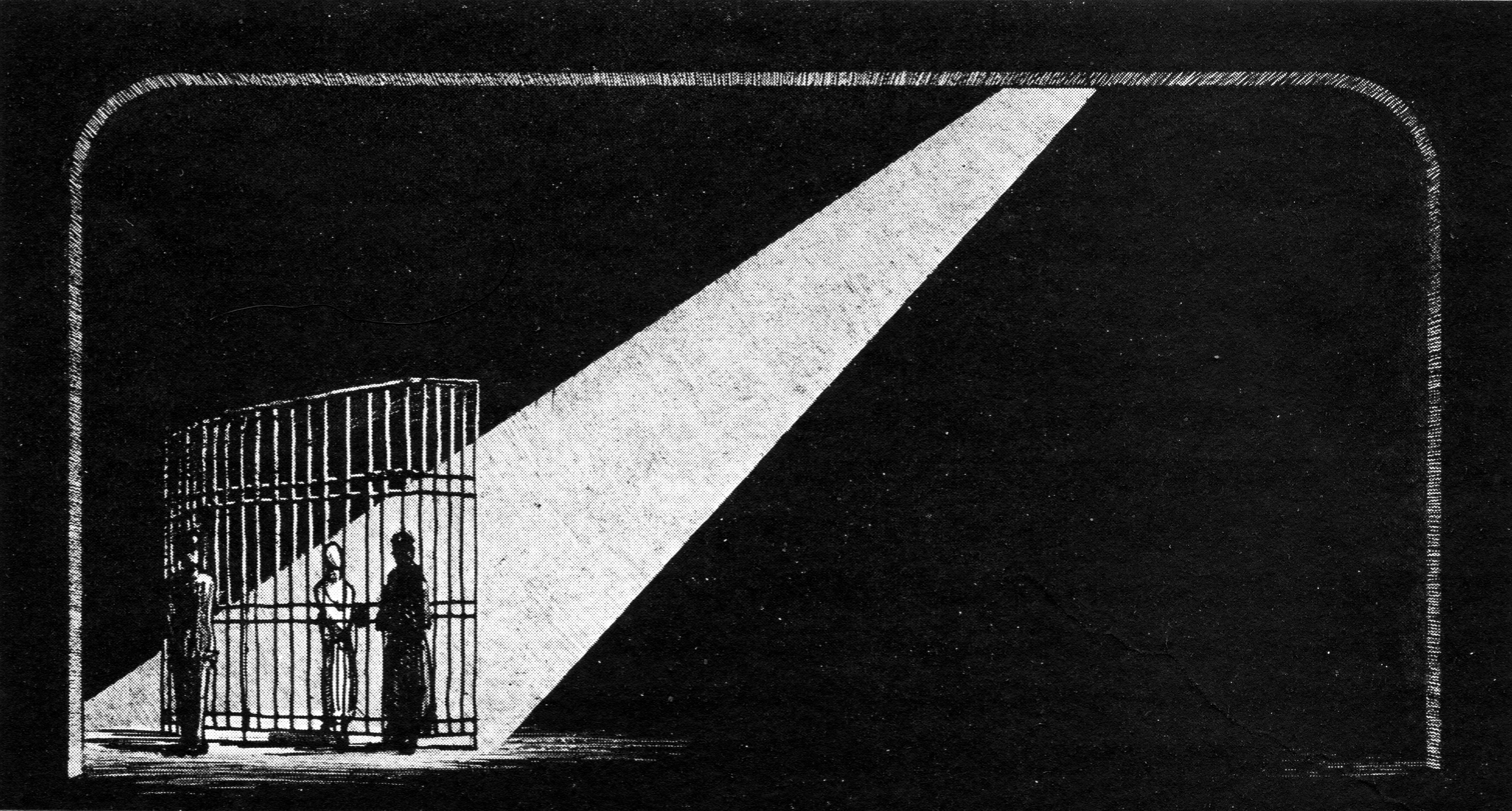 Setting by Robert Edmond Jones (1887–1954) for the cell of the condemned woman in the original Broadway production of Sophie Treadwell's Machinal Caption reads in part: Mr. Jones achieves an unusual scenic freedom by using an open, curtained stage with a permanent background. He parallels the emotional course of the story through its many swift scenes only by changes in properties and significant details and by unusually effective lighting.